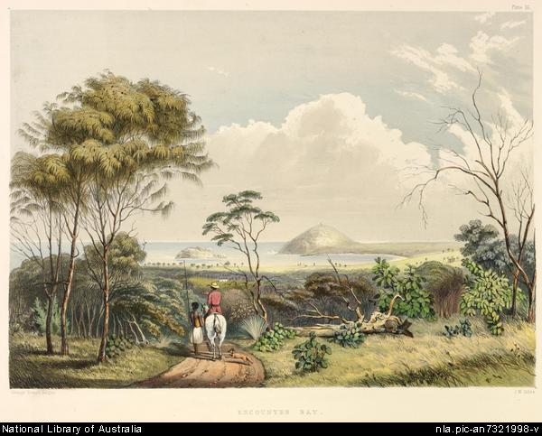 Encounter Bay by James William Giles